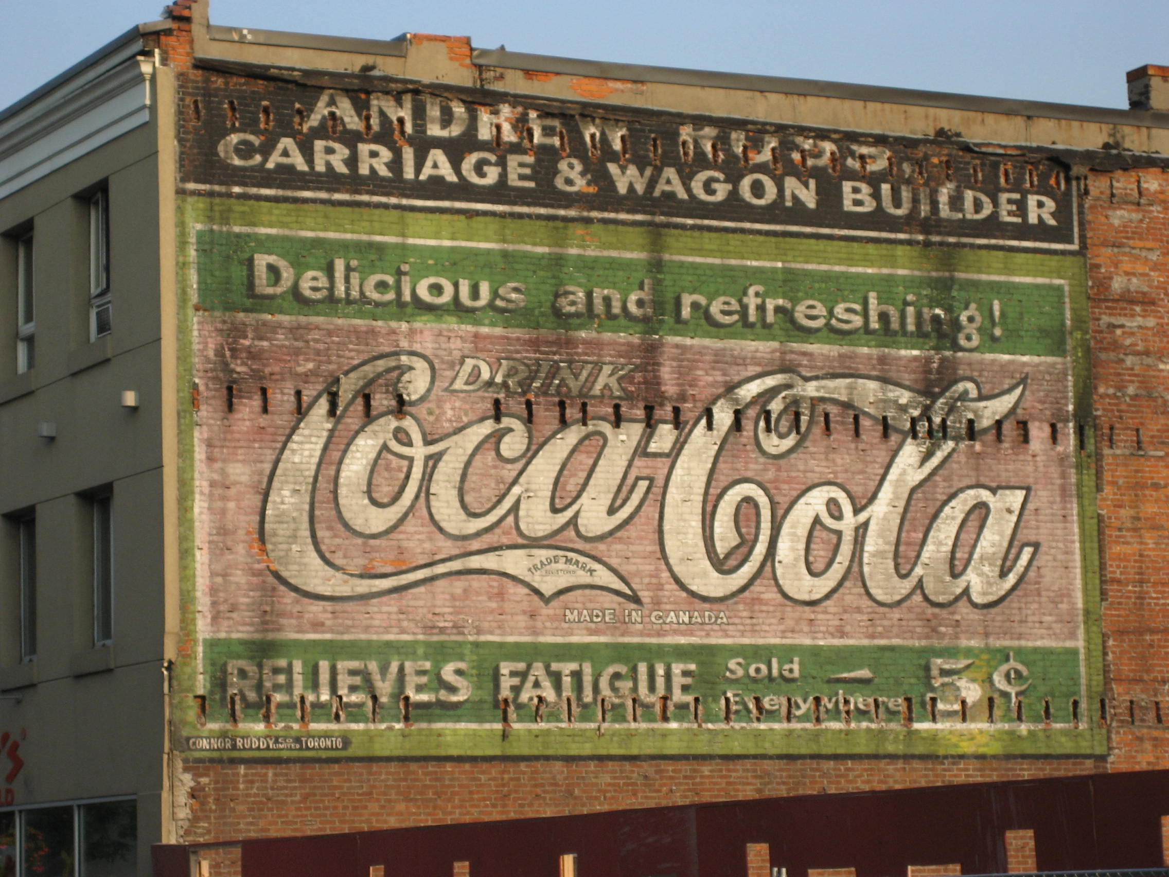 Andrew Ross, Carriage & Wagon Builder signage, King Street East near Ferguson Station, downtown Hamilton, Ontario